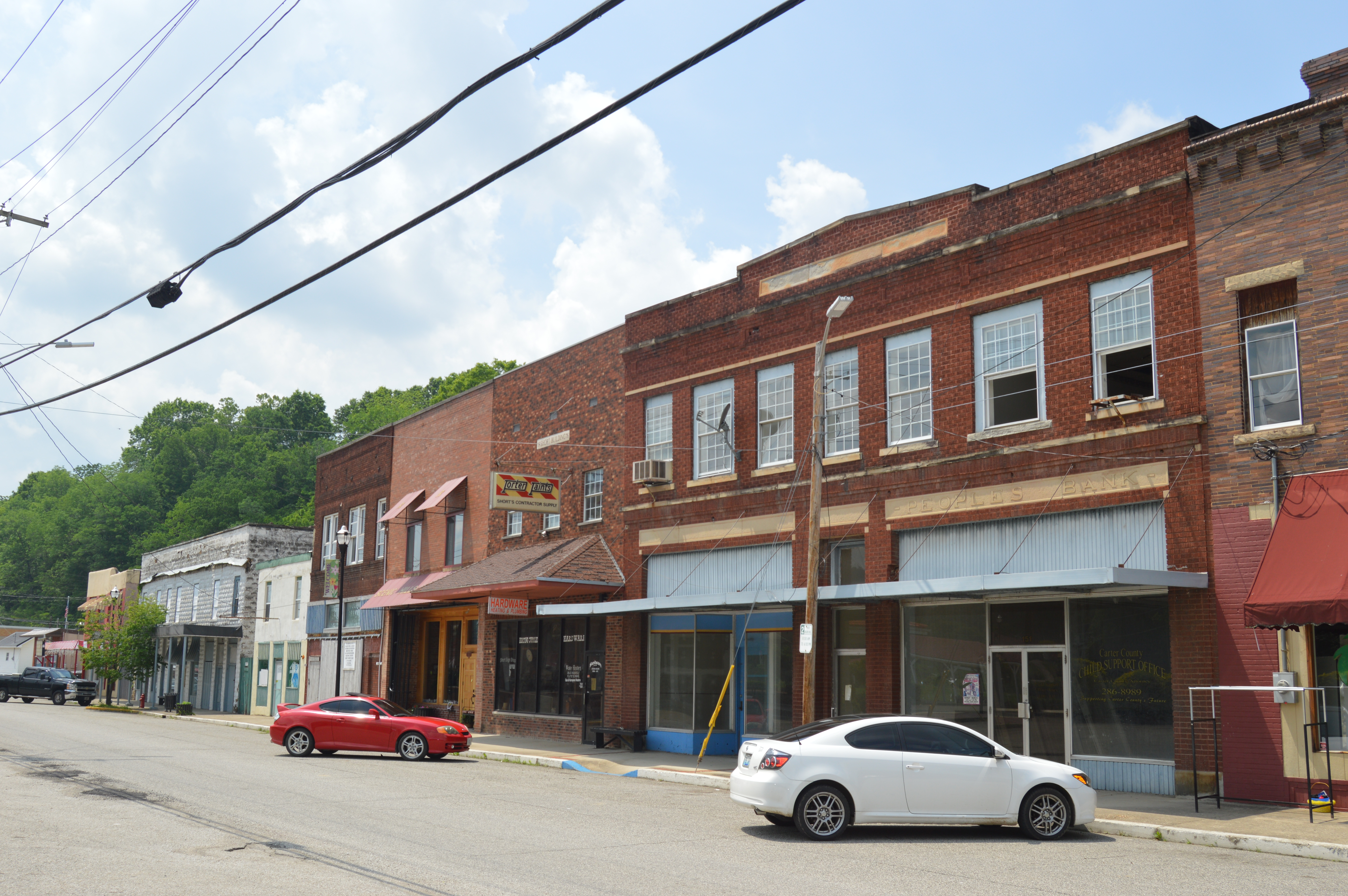 Northern side of Railroad Street, looking west from the Cross Street intersection, in Olive Hill, Kentucky, United States.